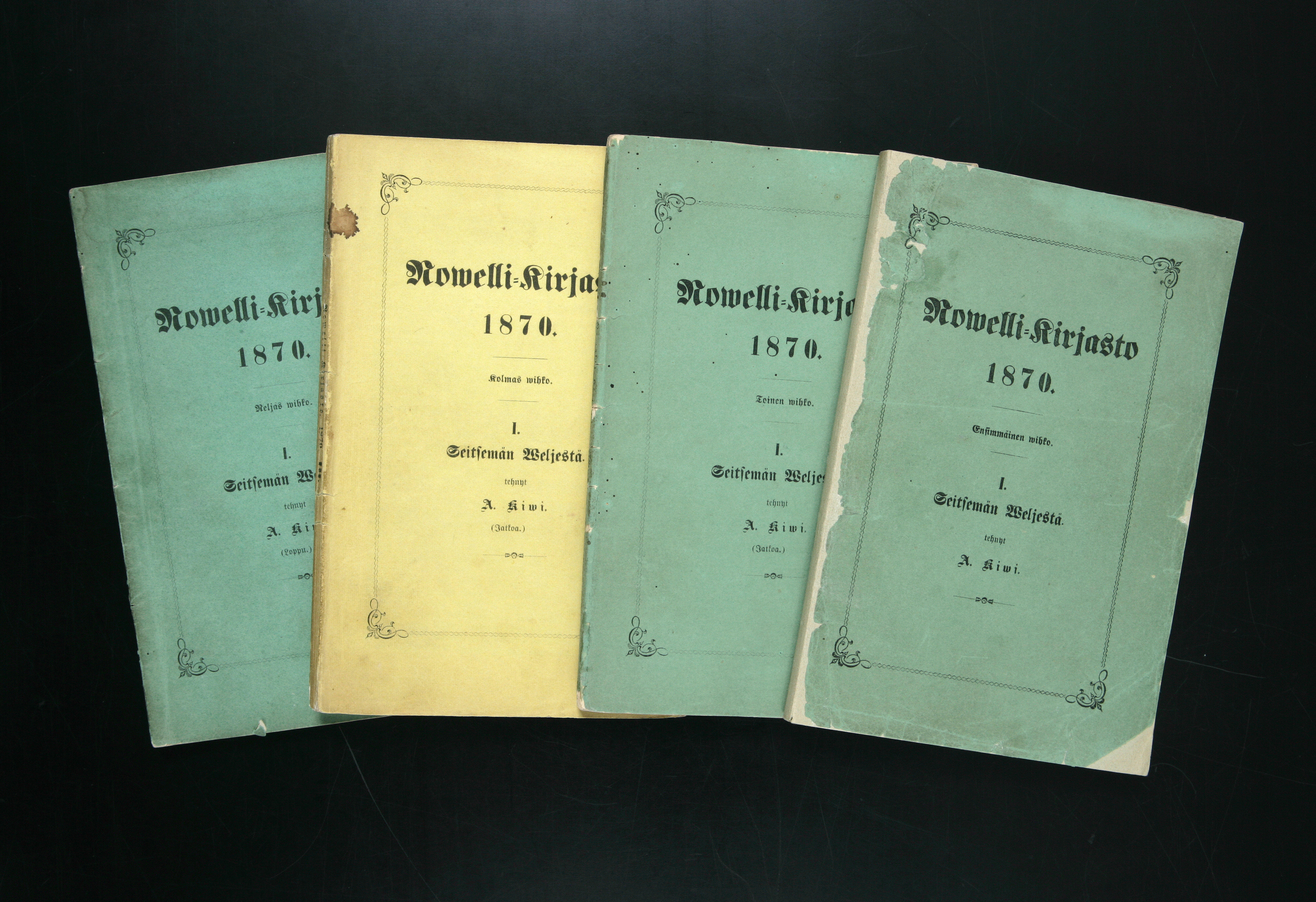 First edition of Aleksis Kivi: Seitsemän weljestä: kertomus. (Seven Brothers) - Helsinki : [Suomalaisen Kirjallisuuden Seura], 1870.